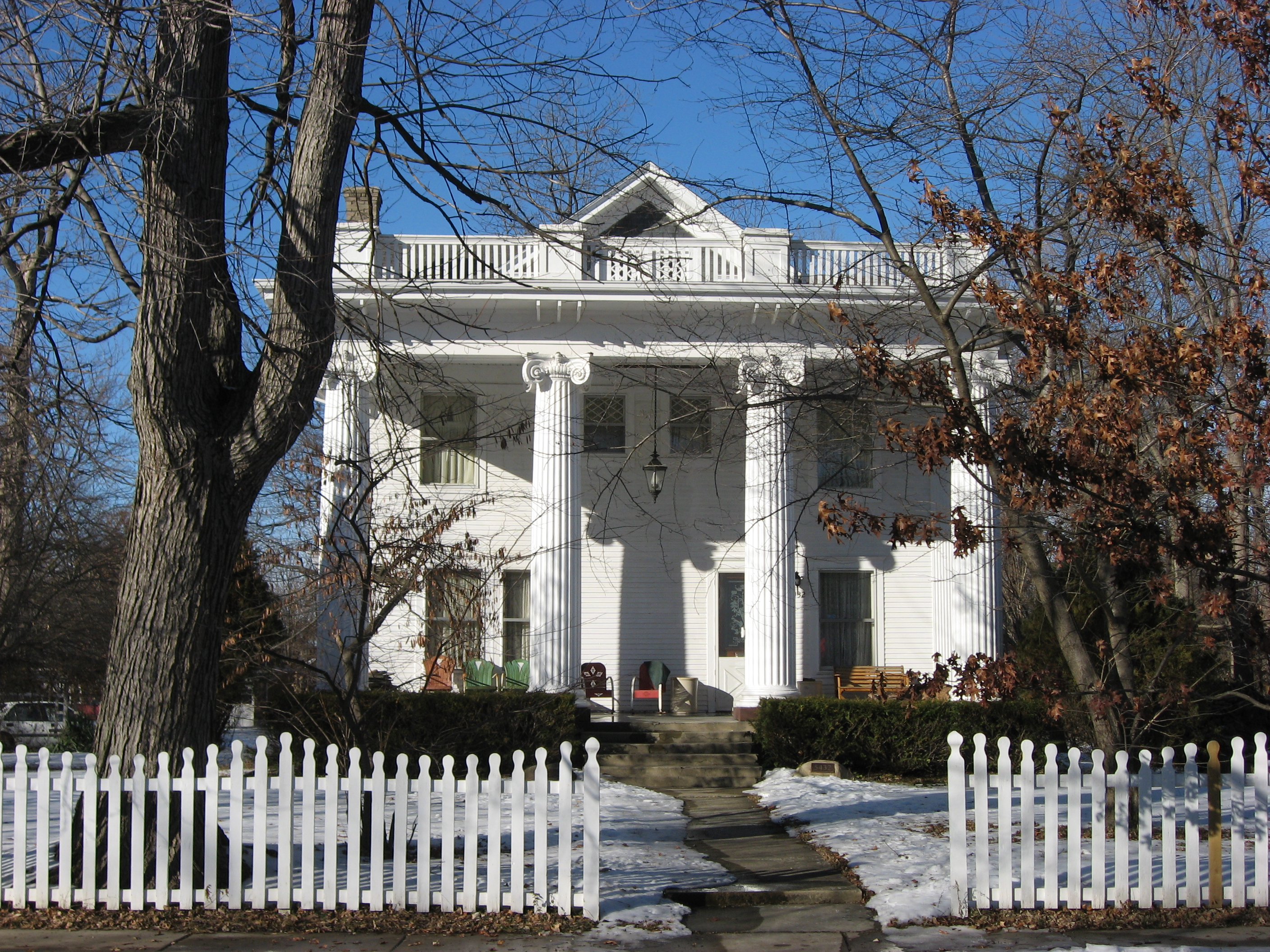 Front of the William H. H. Graham House, located at 5432 University Avenue in Indianapolis, Indiana, United States. Built in 1889, it is listed on the National Register of Historic Places, and it is part of a Register-listed historic district, the Irvington Historic District.